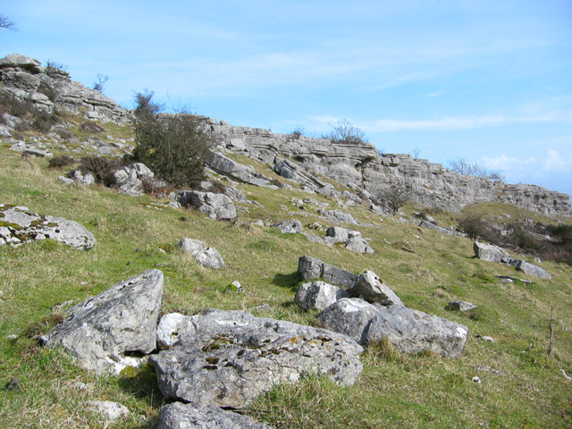 Limestone crags on Hampsfell Low limestone crags on Hampsfell, south east of the northern summit topped by the Hospice. The grassy slope below the crags has occasional stunted trees. View on a sunny afternoon in early March